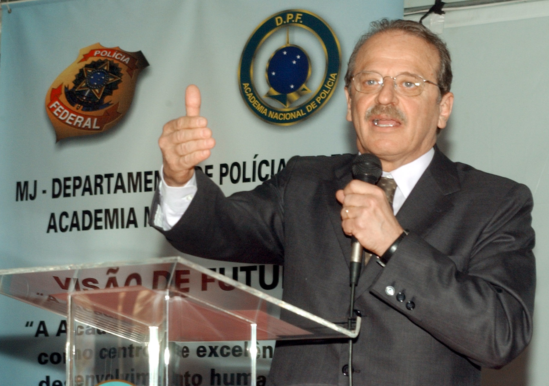 Tarso Genro, current Minister of Justice, is the top authority in Brazilian Federal Police forces.